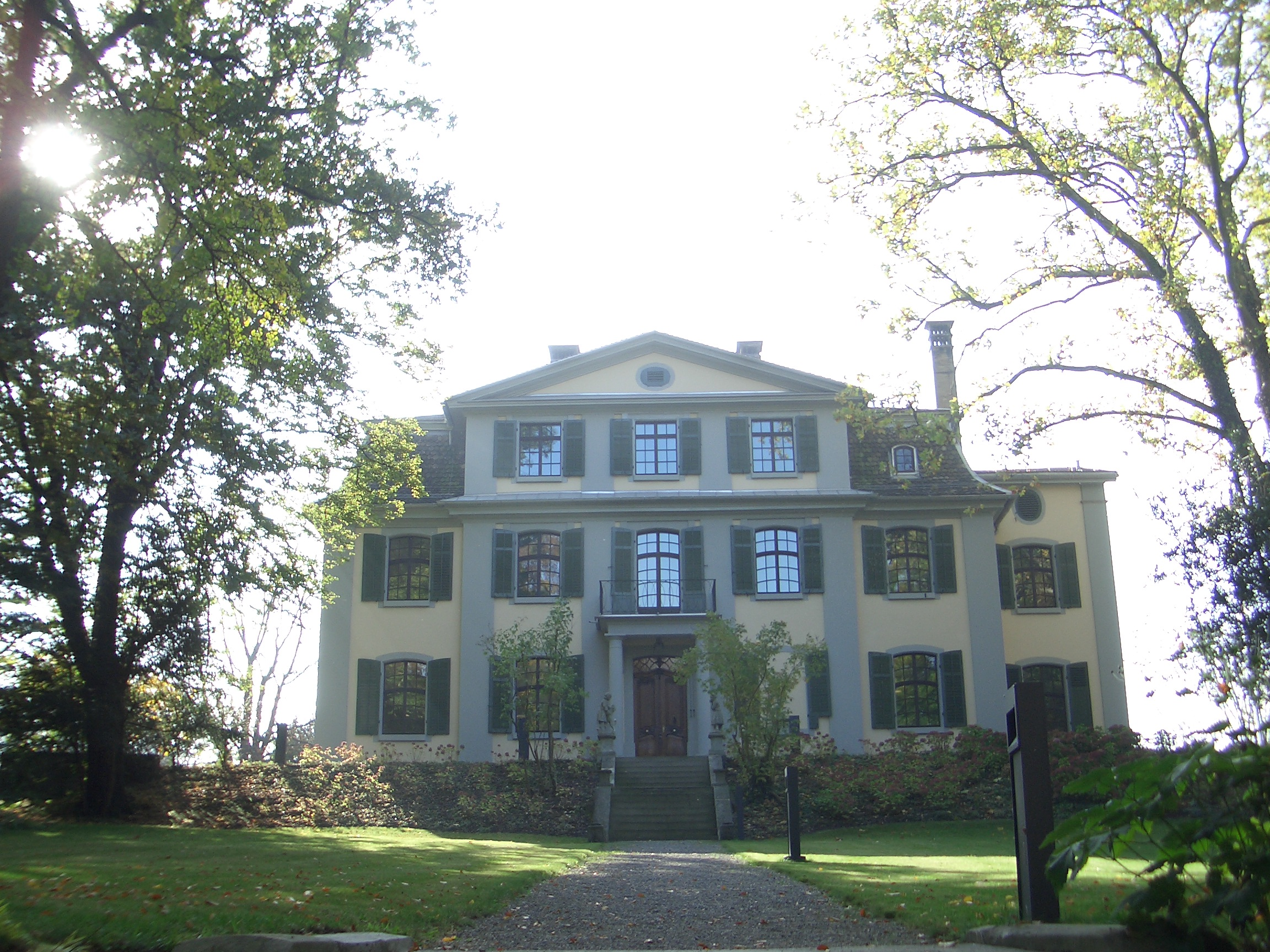 The back side of the IIHF Headquarter in Zurich, Switzerland